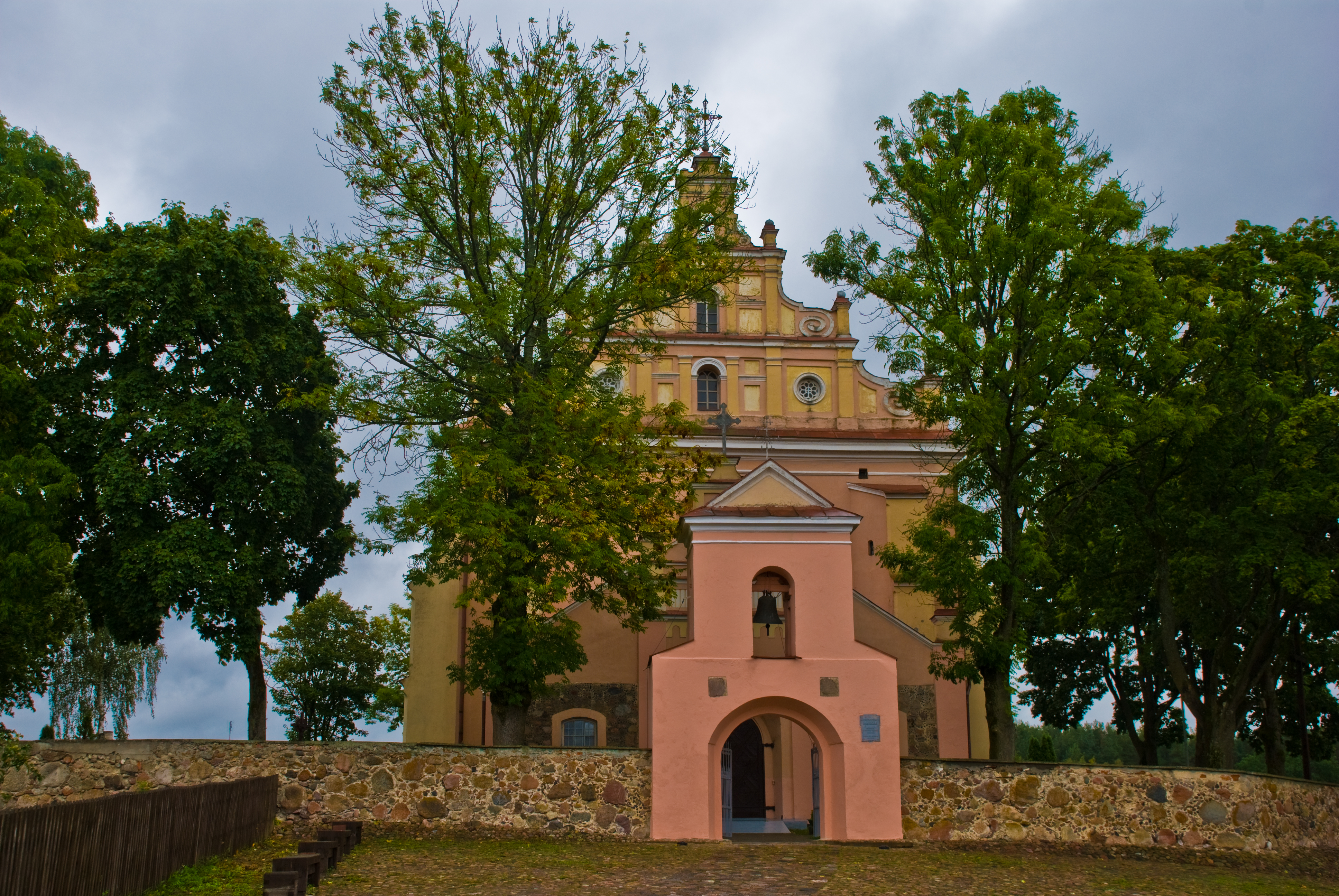 Church of the Assumption, Merkinė, Lithuania